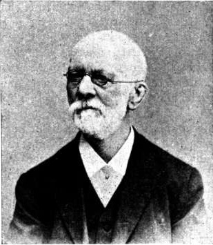 August Wohler's portrait